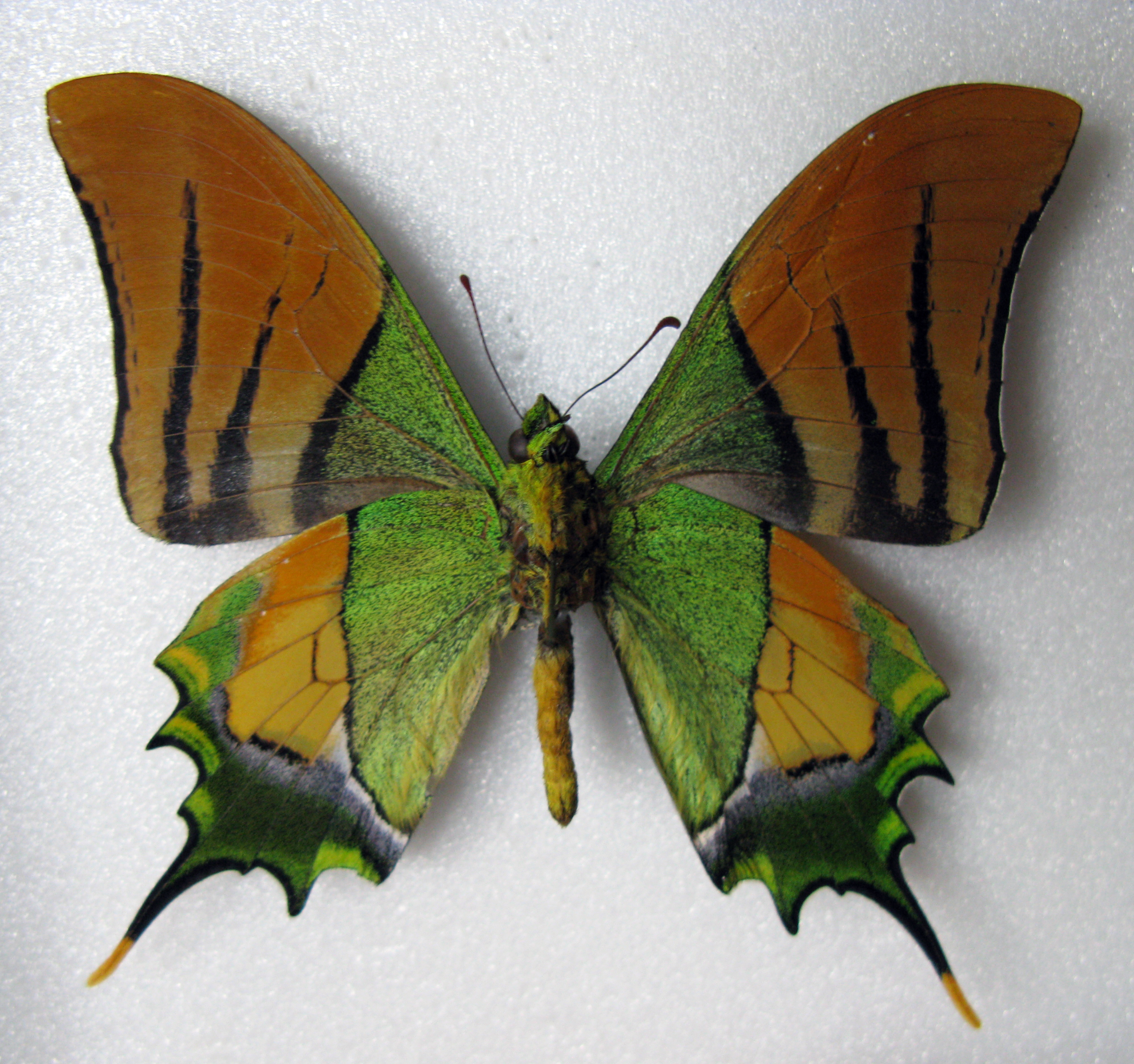 Teinopalpus imperialis (male) verso